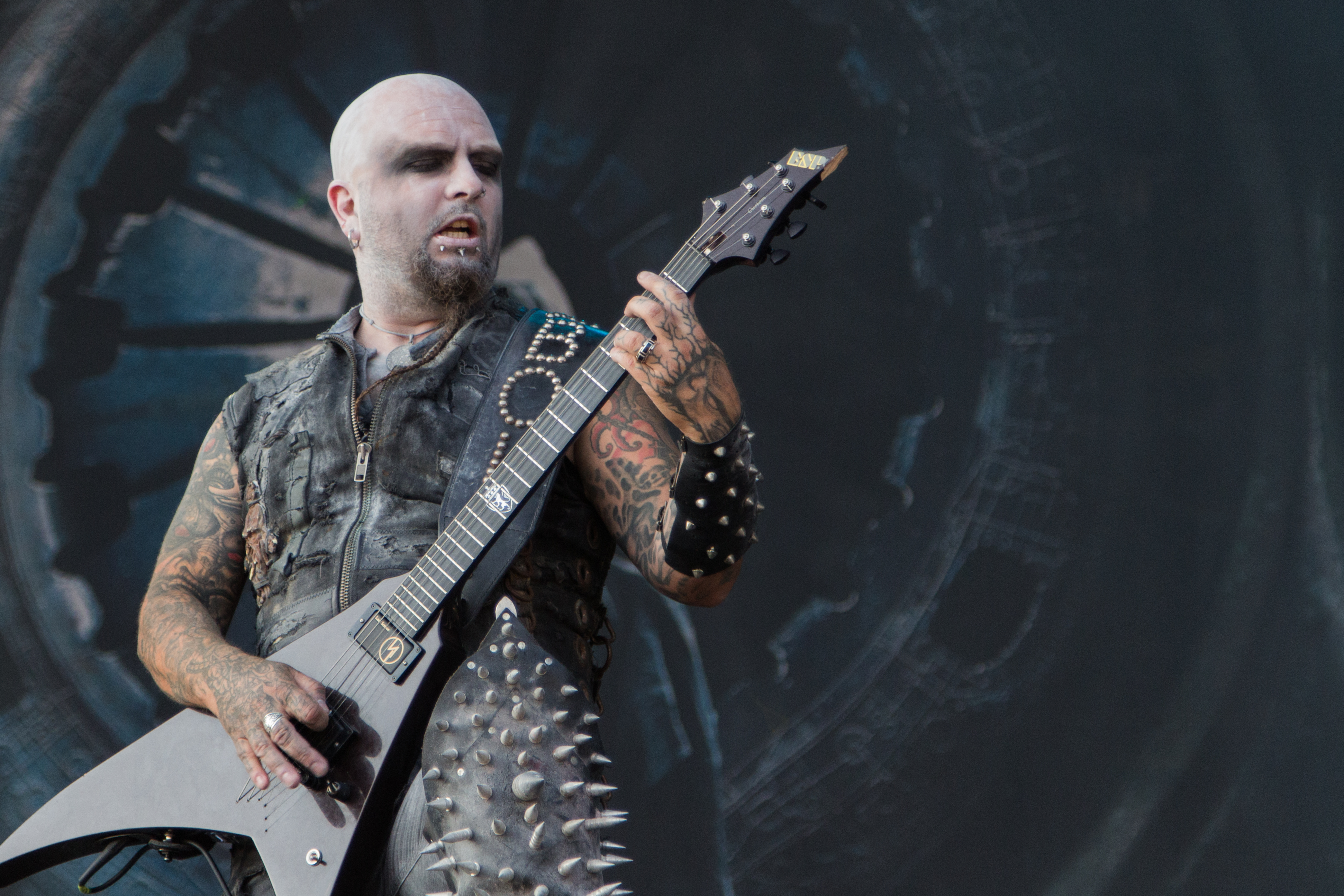 Sven Atle "Silenoz" Kopperud from Dimmu Borgir at the See-Rock Festival 2014